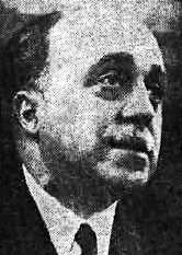 Mitja Ribičič (19 May 1919-) , Slovenian Communist official and Yugoslav politician. He was the only Slovenian prime minister of the Socialist Federal Republic of Yugoslavia (1969–1971). Between 1945 and 1957, he was at the top of the repressive system in Slovenia.